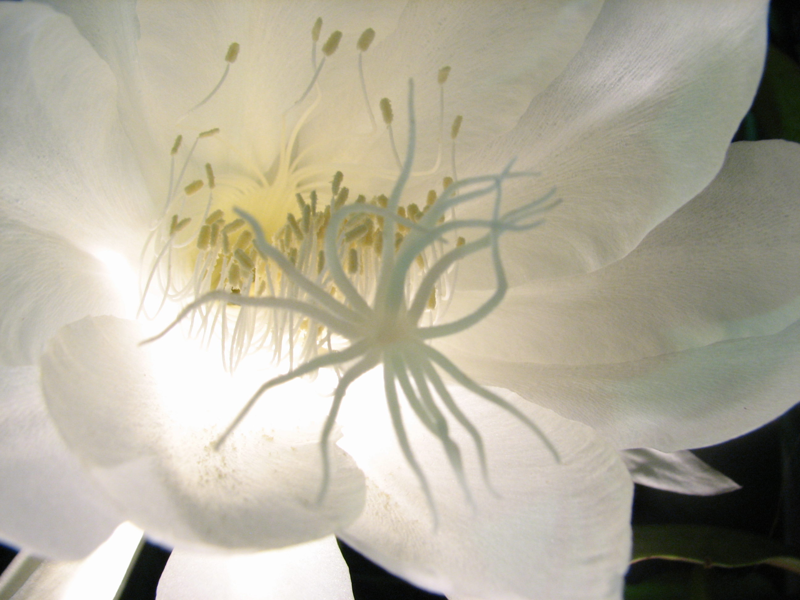 This is front detail of the flower of Epiphyllum oxypetalum. Illuminated with white LED light.